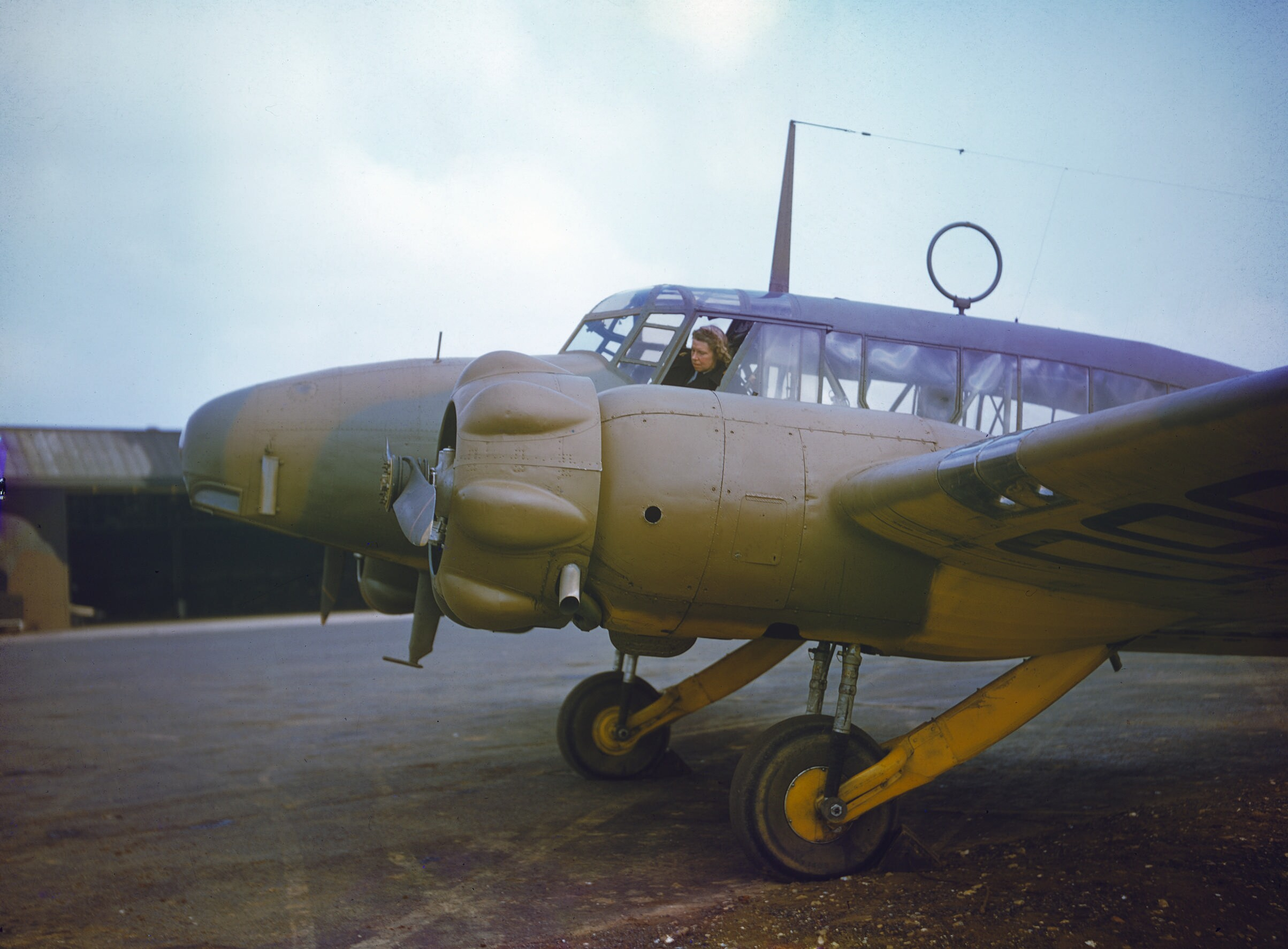 The Air Transport Auxiliary in Britain, 1942 A woman pilot of the Air Transport Auxiliary in the cockpit of an Avro Anson (N5060), which was used to collect and deliver pilots.